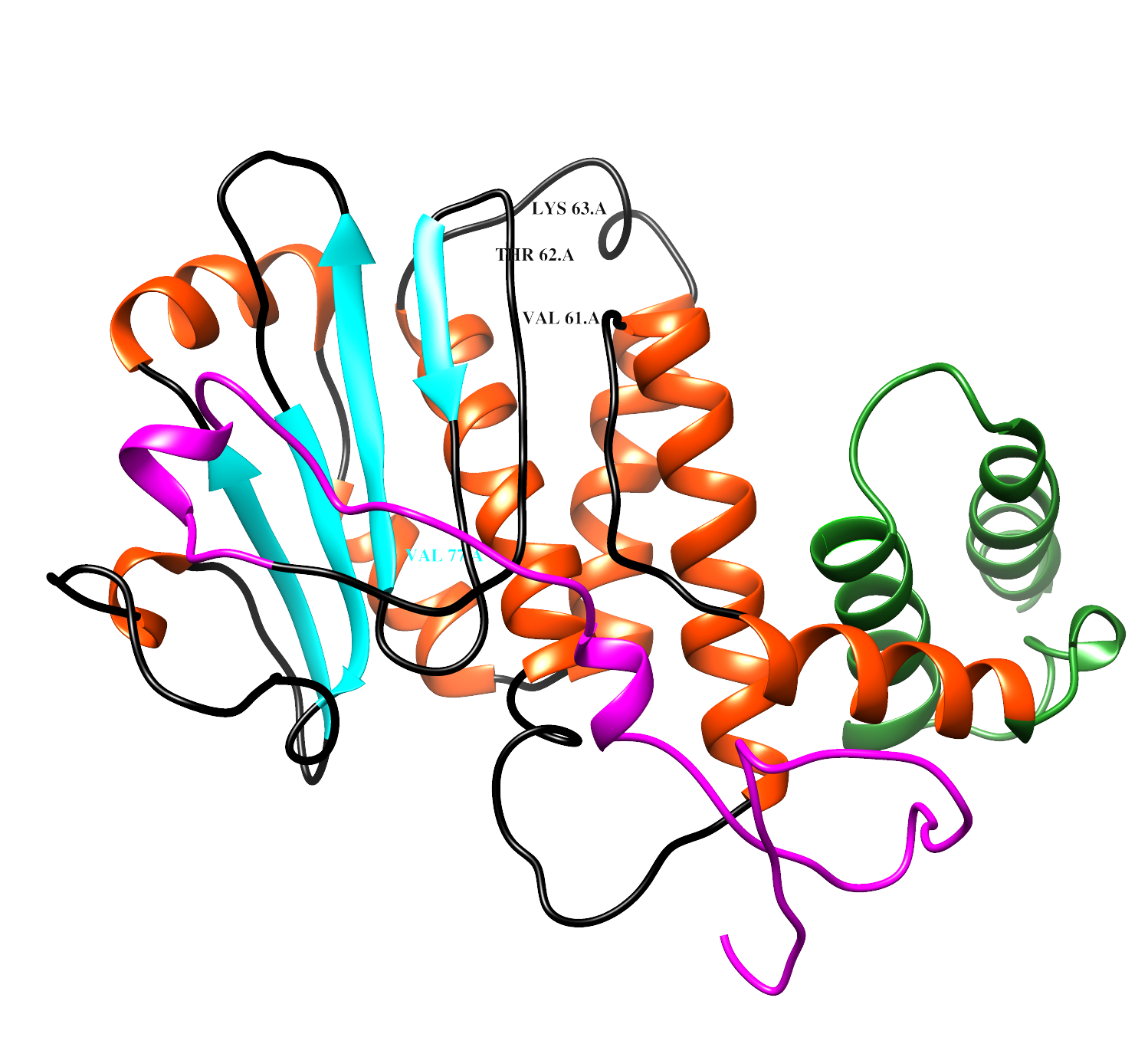 Using USCF Chimera to generate a predicted FAM71F2 protein structure.